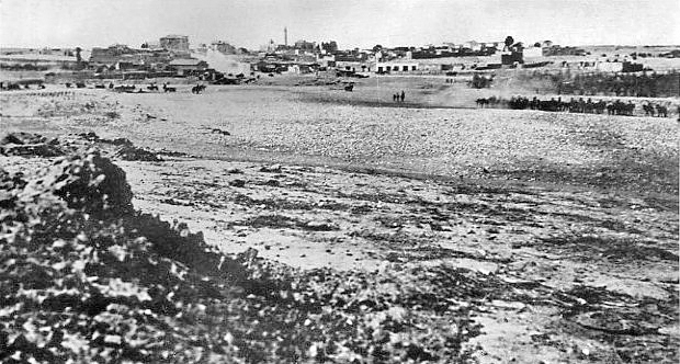 The town of Beersheba in Palestine, 1917. Captured by Australian light horse on 31 October 1917 during the First World War.